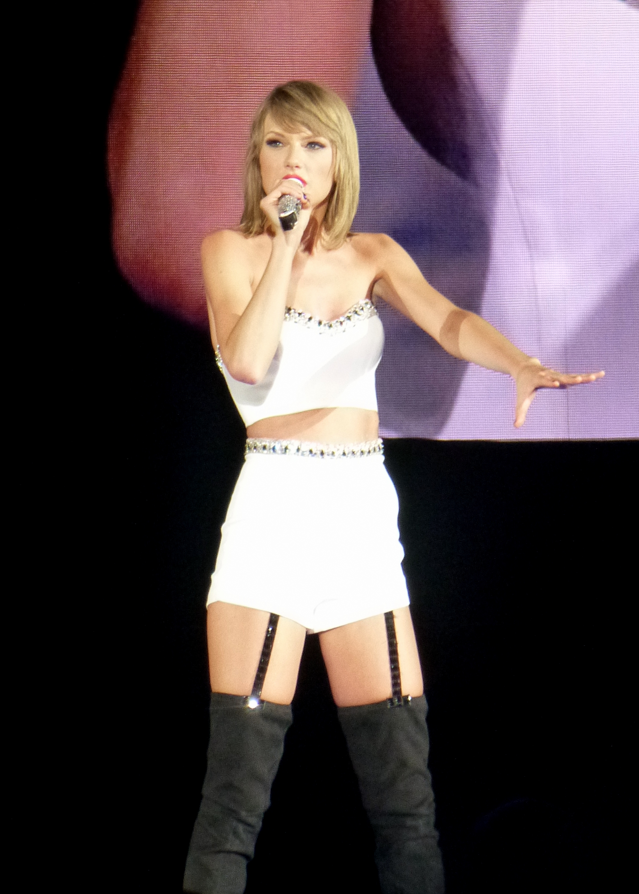 Taylor Swift 1989 Tour at Ford Field in Detroit, 5/30/15